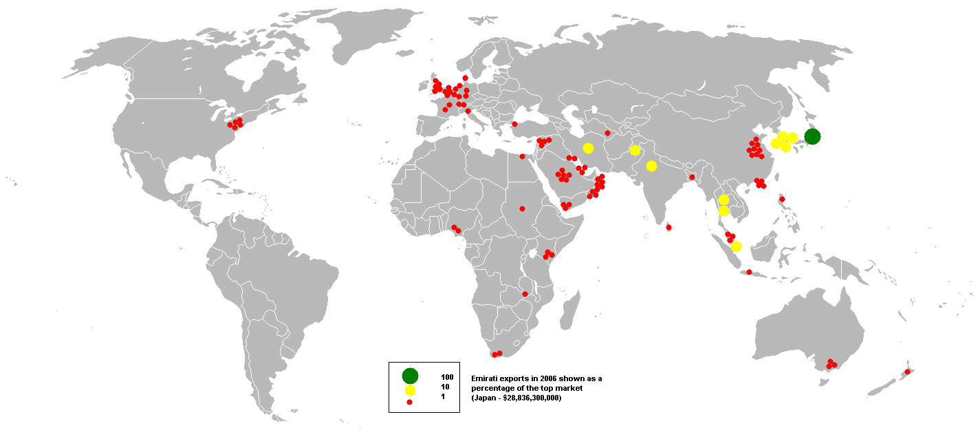 This bubble map shows the global distribution of Emirati exports in 2006 as a percentage of the top market (Japan - $28,836,300,000). This map is consistent with incomplete set of data too as long as the top producer is known. It resolves the accessibility issues faced by colour-coded maps that may not be properly rendered in old computer screens. Data was extracted on 22nd September 2007 from Based on :Image:BlankMap-World.png